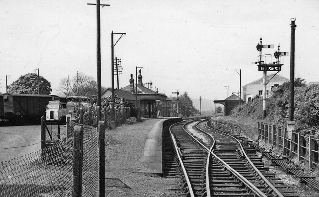 Brynmenyn Station. View SW, towards Tondu and Pyle; ex-Great Western lines, Bridgend and Pyle via Tondu to Blaengarw by the Garw Branch (closed to passengers 9/2/53, still open 2010 - but disused [?] - as far as Pontycymer), and via the Blackmill Branch to Nantymoel (Ogmore Branch, closed to passengers 5/5/58, remainder open for coal from Ogmore Washery but in 2010 is mothballed). Also trains ran until 22/9/30 through Brynmenyn via Blackmill by the Gilfach Branch via Hendreforgan to Gilfach Goch and until 5/6/61 goods ran by the Hendreforgan Branch to Gellyrhaiad Junction on the Ely Valley Line (Taff Vale Rly.).